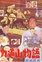 Movie poster for 1955 Japanese movie (力道山物語 怒濤の男 Rikidōzan monogatari dotō no otoko).